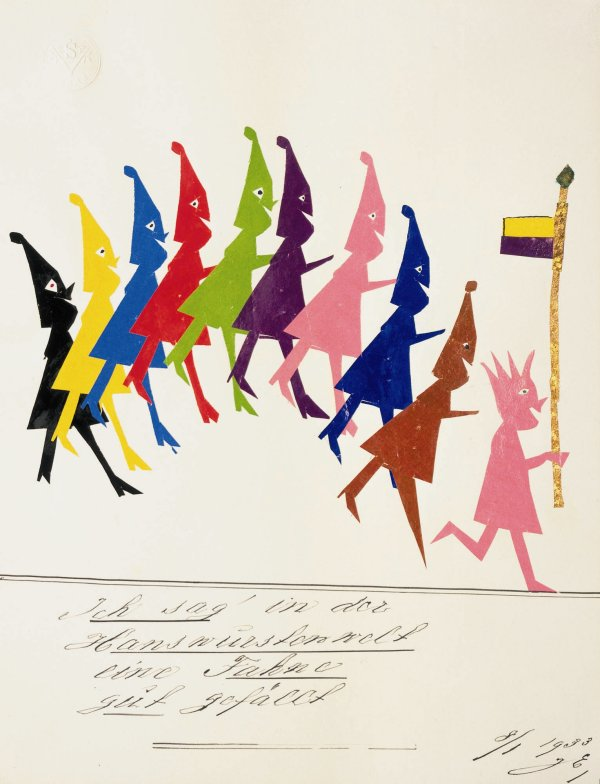 Picture in mixed media with handwritten text.(Google translator).